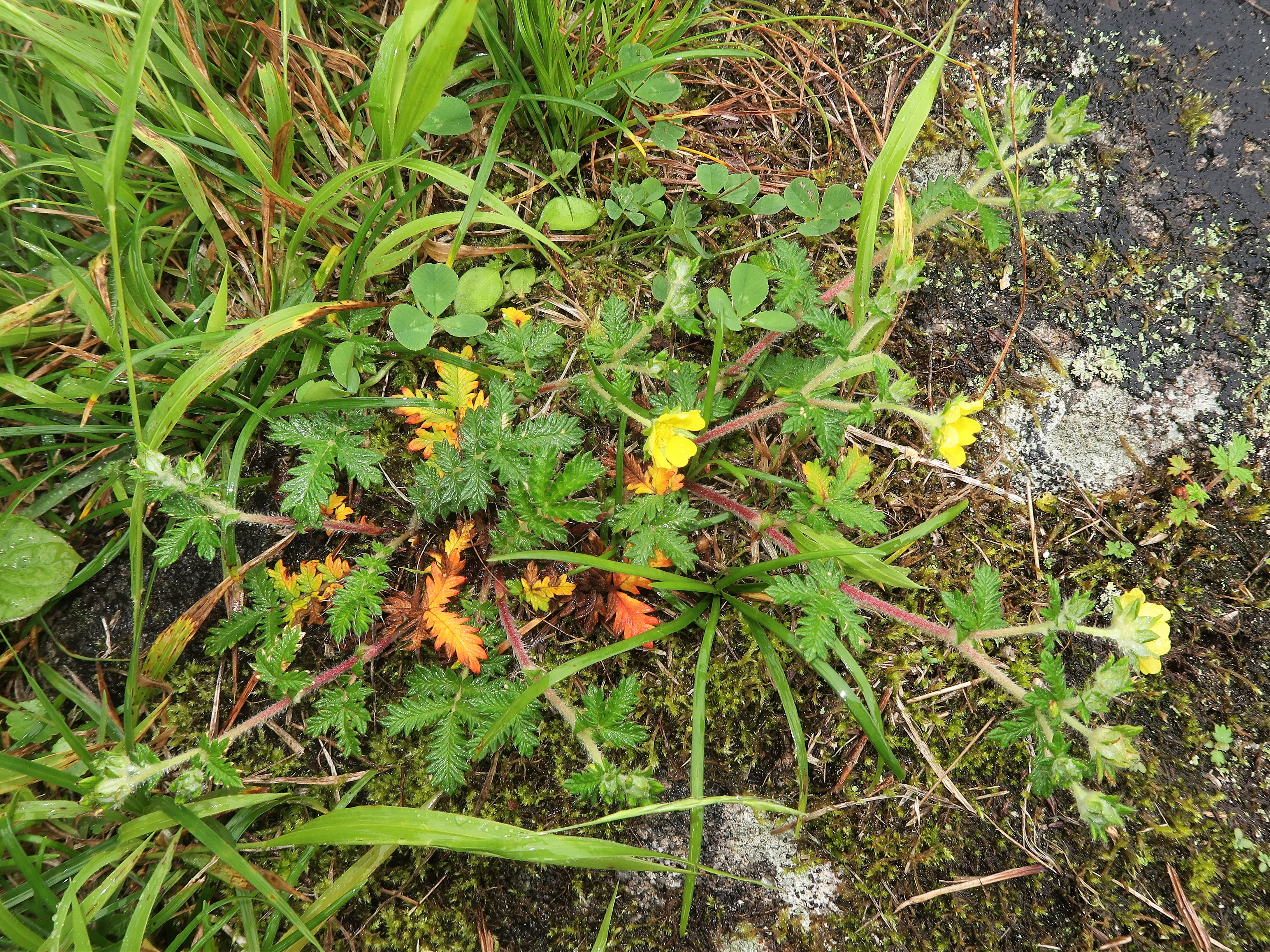 Potentilla niponica, Naka-dori area, Fukushima pref., Japan